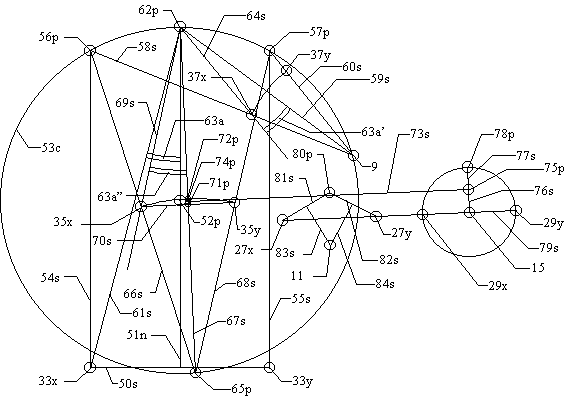 Enable diagram of Klann linkage